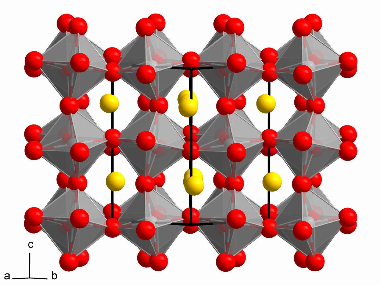 Crystal structure of the mineral perovskite (calcium titanate, CaTiO3; orthorhombic, space group Pbmn). The perovskite structure type usually refers to the cubic structure (space group Pm3m) found e.g. for strontium and barium-titanate. Due to the smaller size of the Ca2+ cations, the crystal structure of the CaTiO3 prototype is slightly distorted and thus the cubic symmetry is reduced to orthorhombic. Crystallographic data: The a and b axes are rotated about 45° from where the cubic axes would lie, while the c axis is oriented like the third cubic axis. The unit-cell dimension in the c direction is twice what the cubic unit cell dimension would be, and the other two are longer by about the square root of two, so that the orthorhombic cell contains four formulas instead of one.